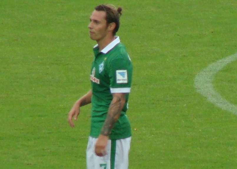 Ludovic Obraniak during match: Pogoń Szczecin - Werder Bremen